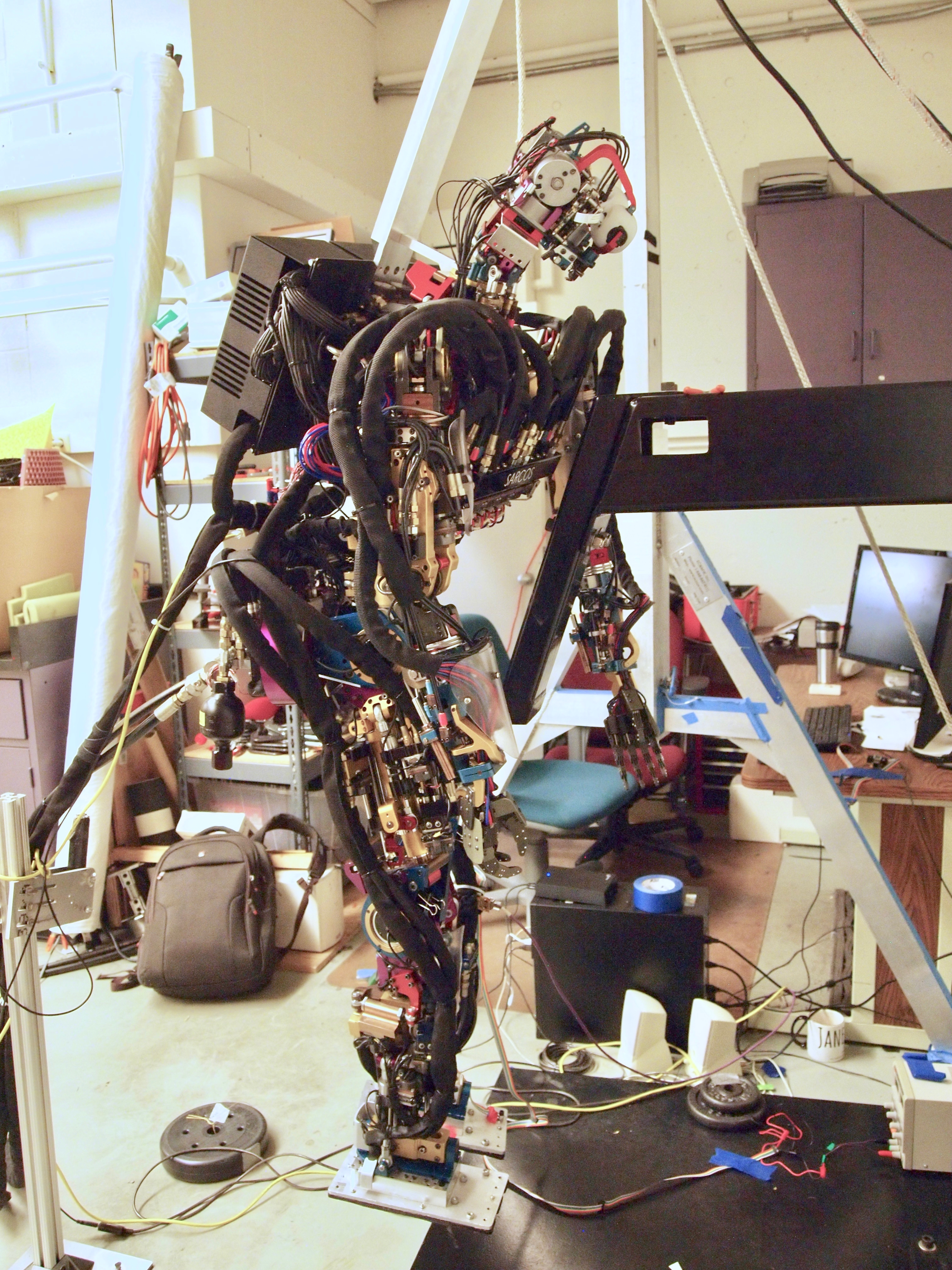 SARCOS humanoid called CB-i (Computational Brain) at Carnegie Mellon University